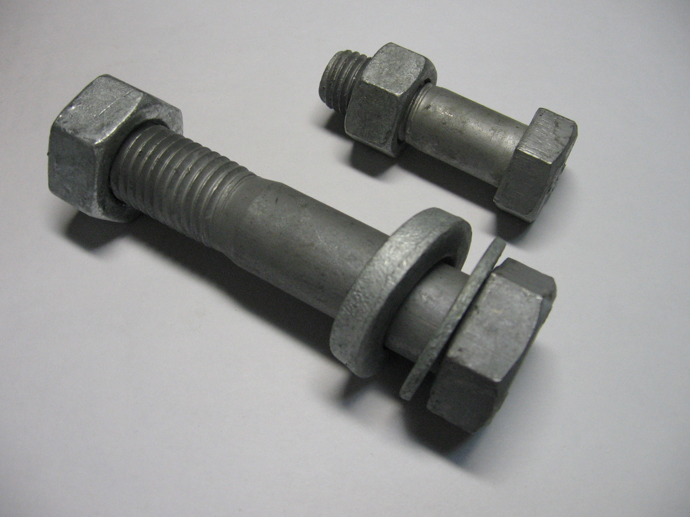 Hot dip galvanized bolts, nuts and washers